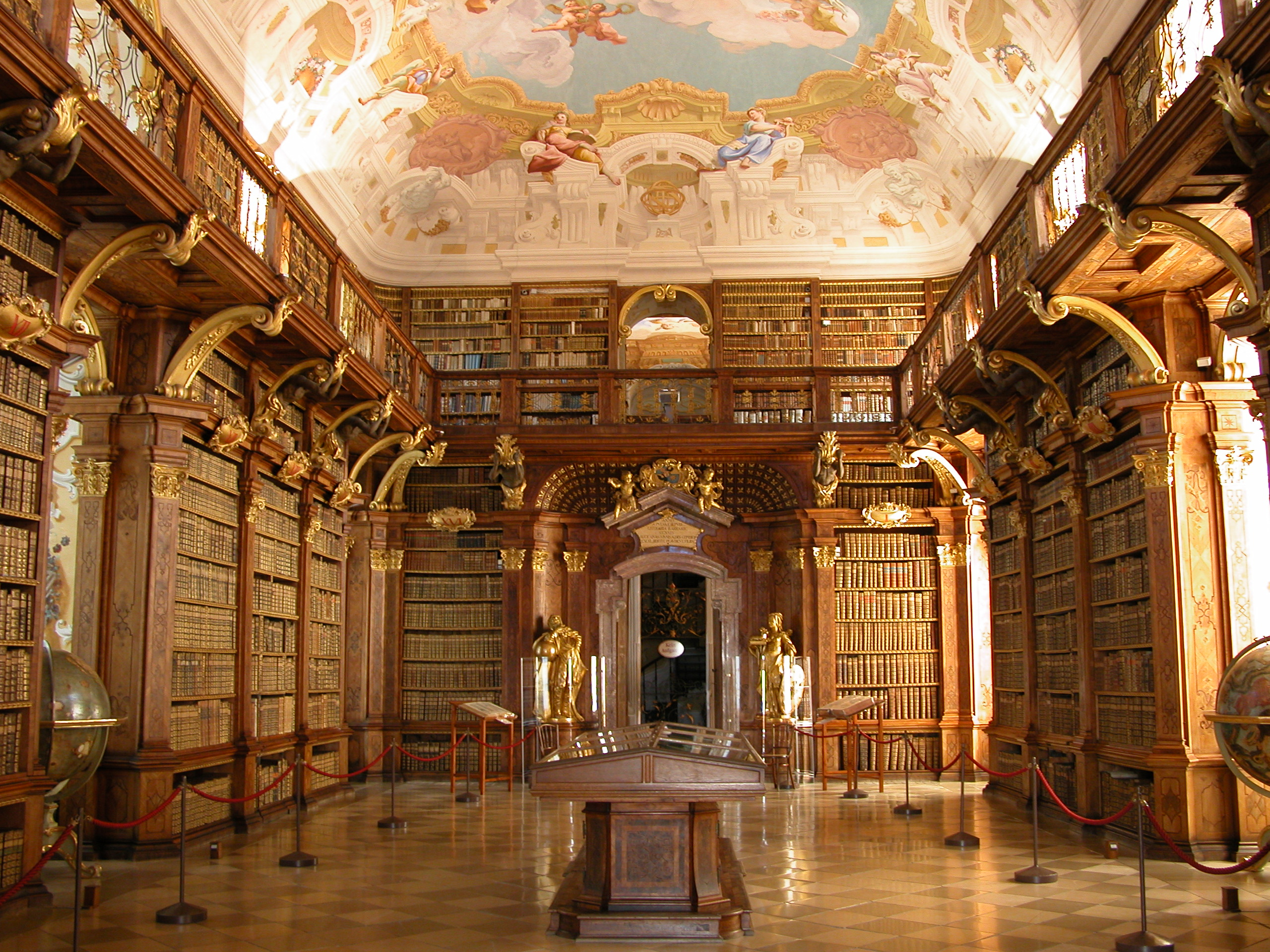 Melk Benedictine Abbey Library